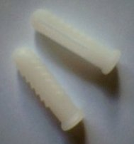 Two plastic screw anchors. Sean Griffin, made it myself